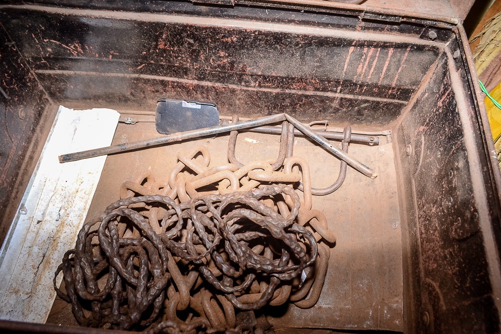 Slave chains found in Badagry Museum